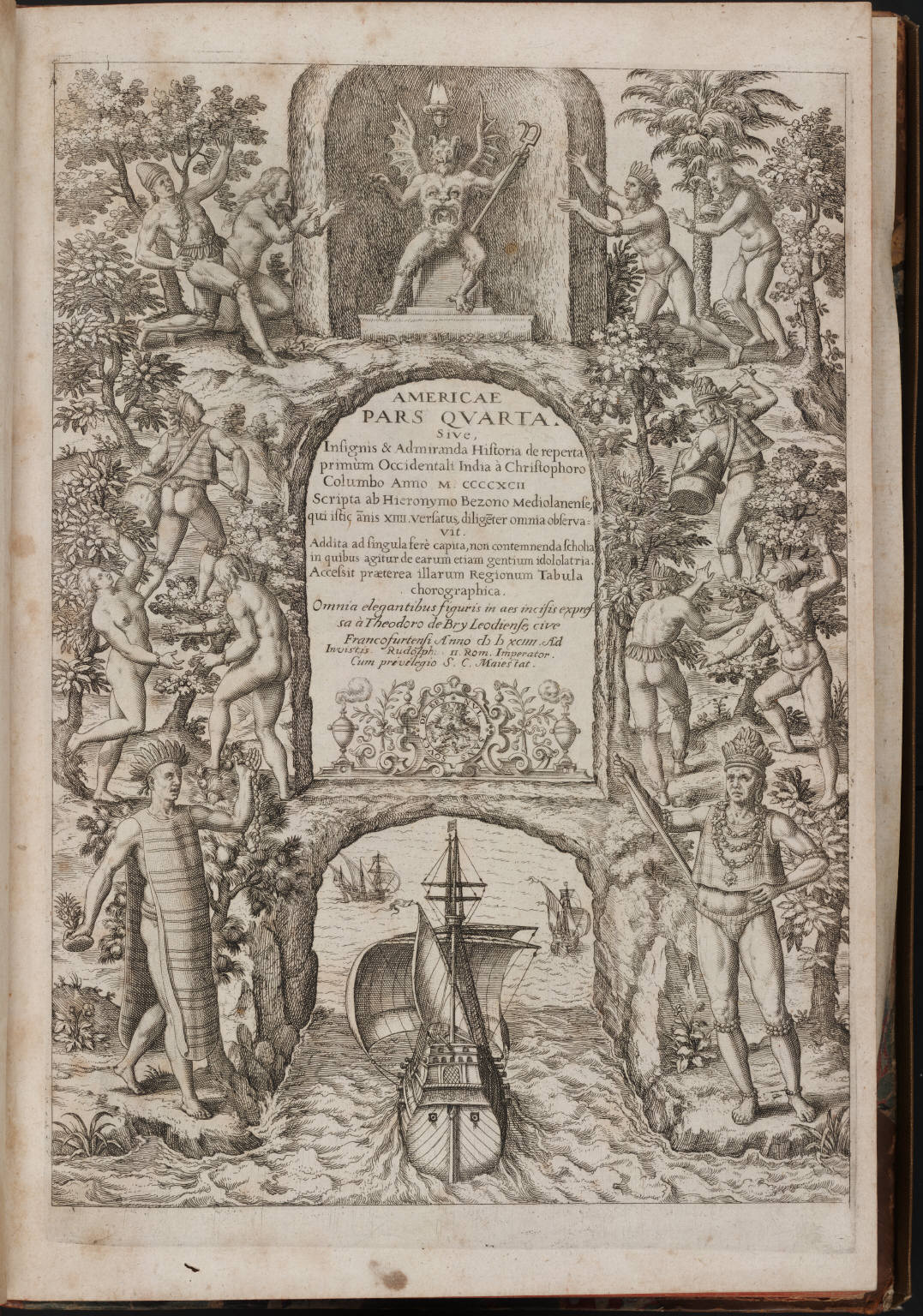 "Historia del Mondo Nuovo," title page, illustration by Theodor de Bry, text by Girolamo Benzoni. Engraving. Courtesy of the Yale Collection of Western Americana, Beinecke Rare Book and Manuscript Library, Yale University, New Haven, Connecticut.